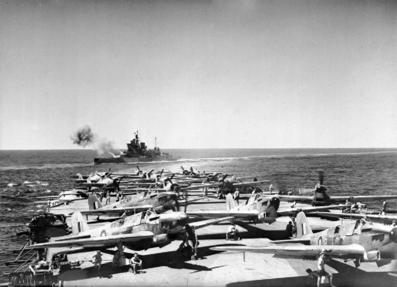 The Royal Navy battleship HMS Valiant fires its 38.1 cm guns during exercises as seen from the flight deck of the aircraft carrier HMS Illustrious (87). The planes in the foreground are Fairey Fulmars of B Flight, 806 Squadron, Fleet Air Arm, with Grumman Martlets of 881 NAS parked aft.